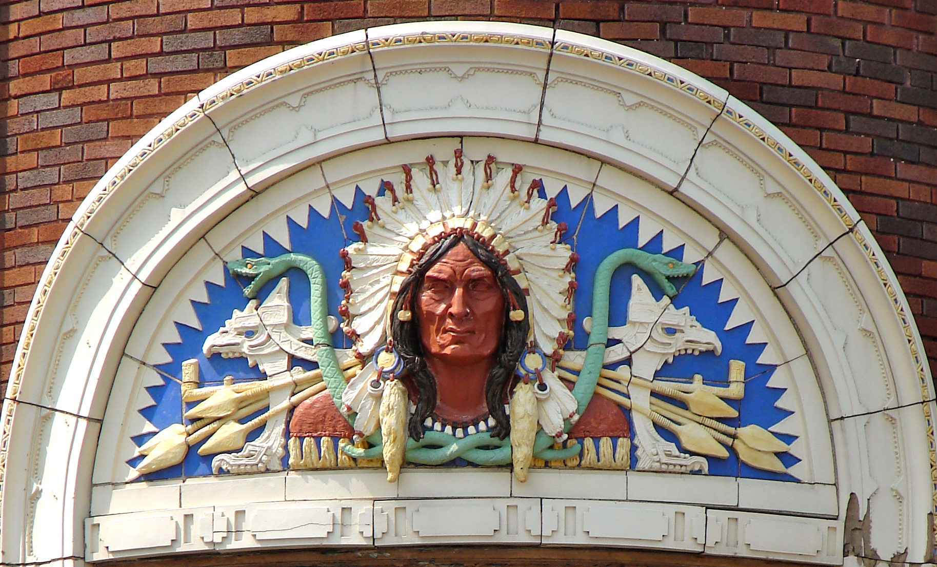 Lunette at main corner of the Fort Armstrong Theatre on the NRHP since May 23, 1980. At 1826 3rd Ave., Rock Island, Illinois. Art Deco movie palace that opened in 1920.